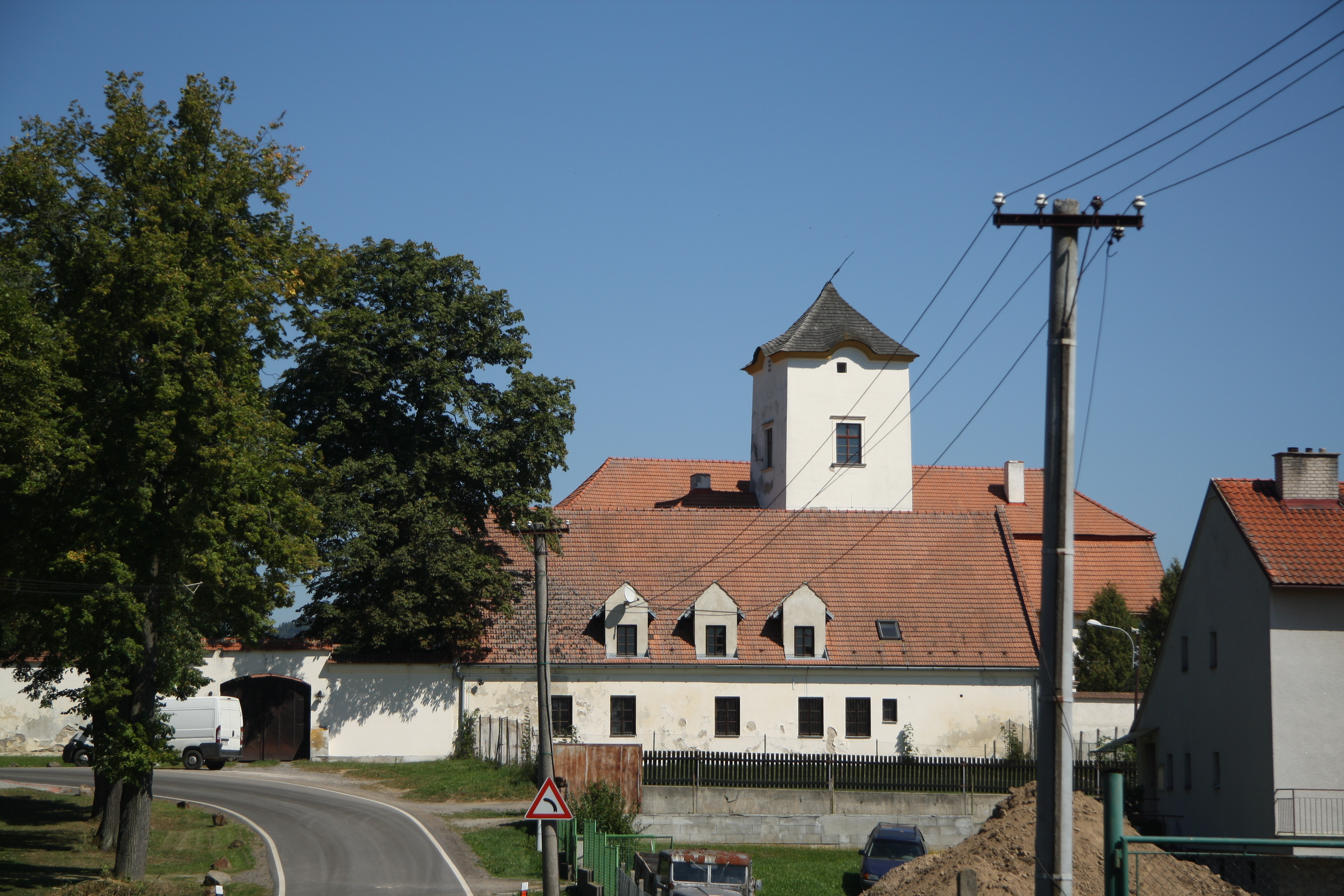 Castle Černá in Černá, Žďár nad Sázavou District.